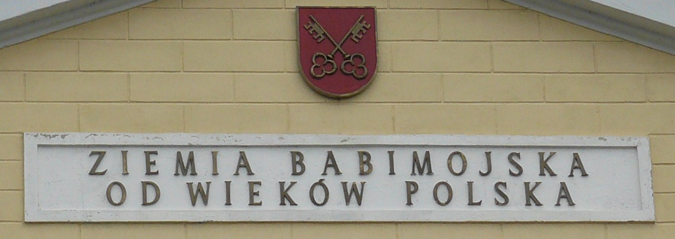 Babimost Town Hall - detail.